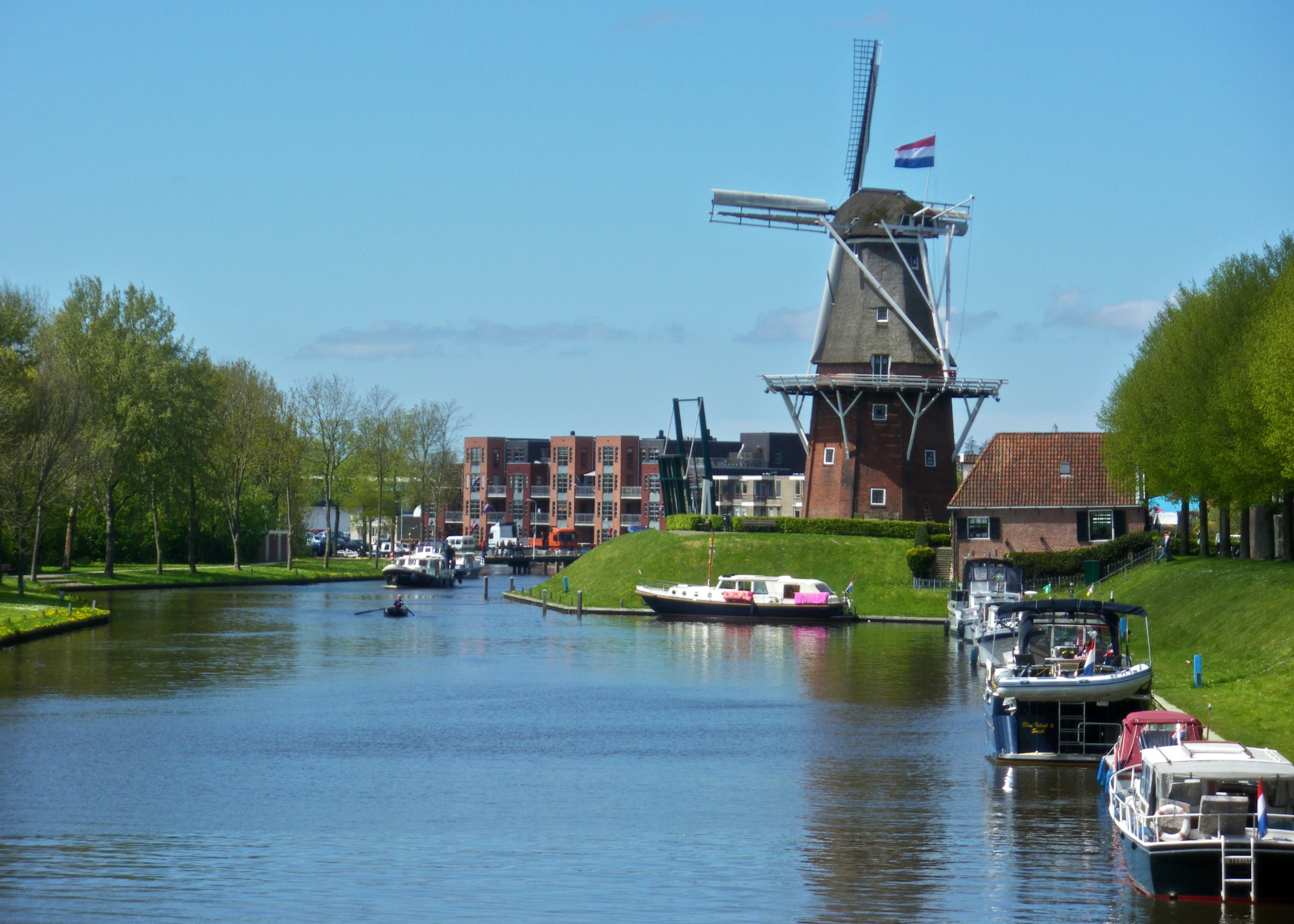 Baantjegracht with Zeldenrust on the right. Taken from De Hoop.